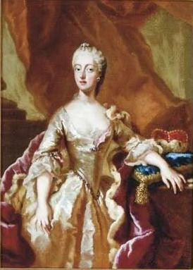 Portrait of Duchess Maria Anna Josepha of Bavaria (1734-1776) or her mother Maria Amalia of Austria (1701-1756)